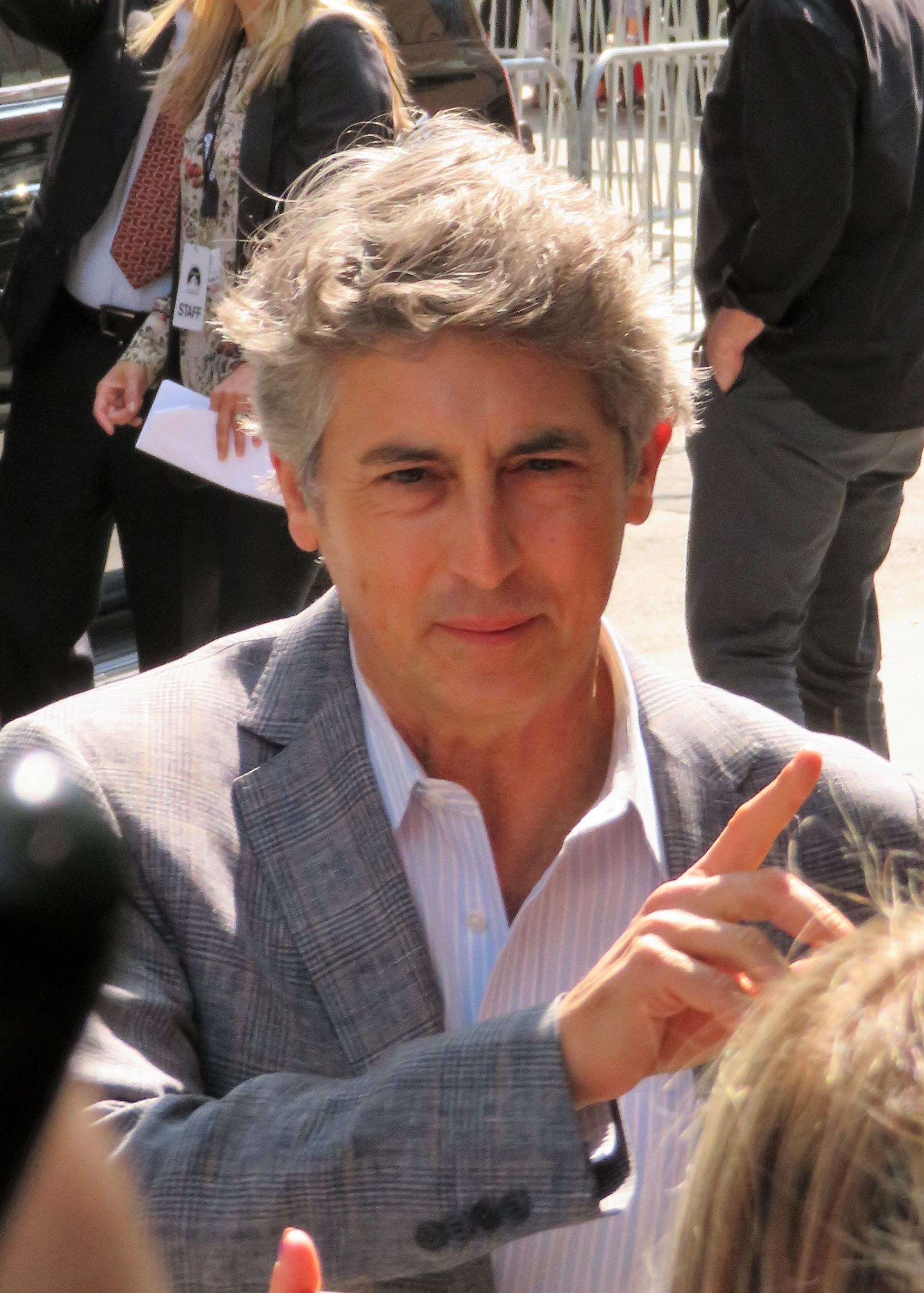 Alexander Payne at the press conference of Downsizing, 2017 Toronto Film Festival